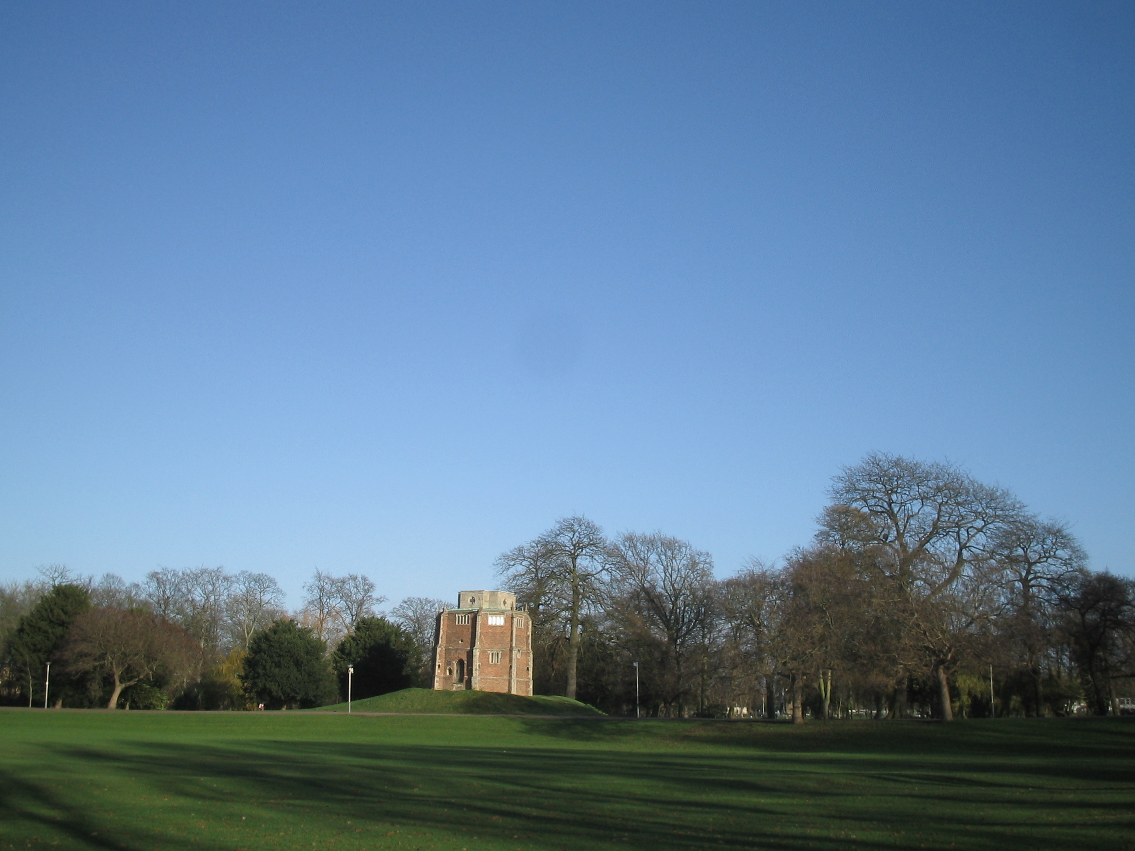 The Red Mount in the Walks in King's Lynn The photograph was taken by myself (Ben Dickson) on December 3rd 2006 with a Canon iXus i Digital Camera.